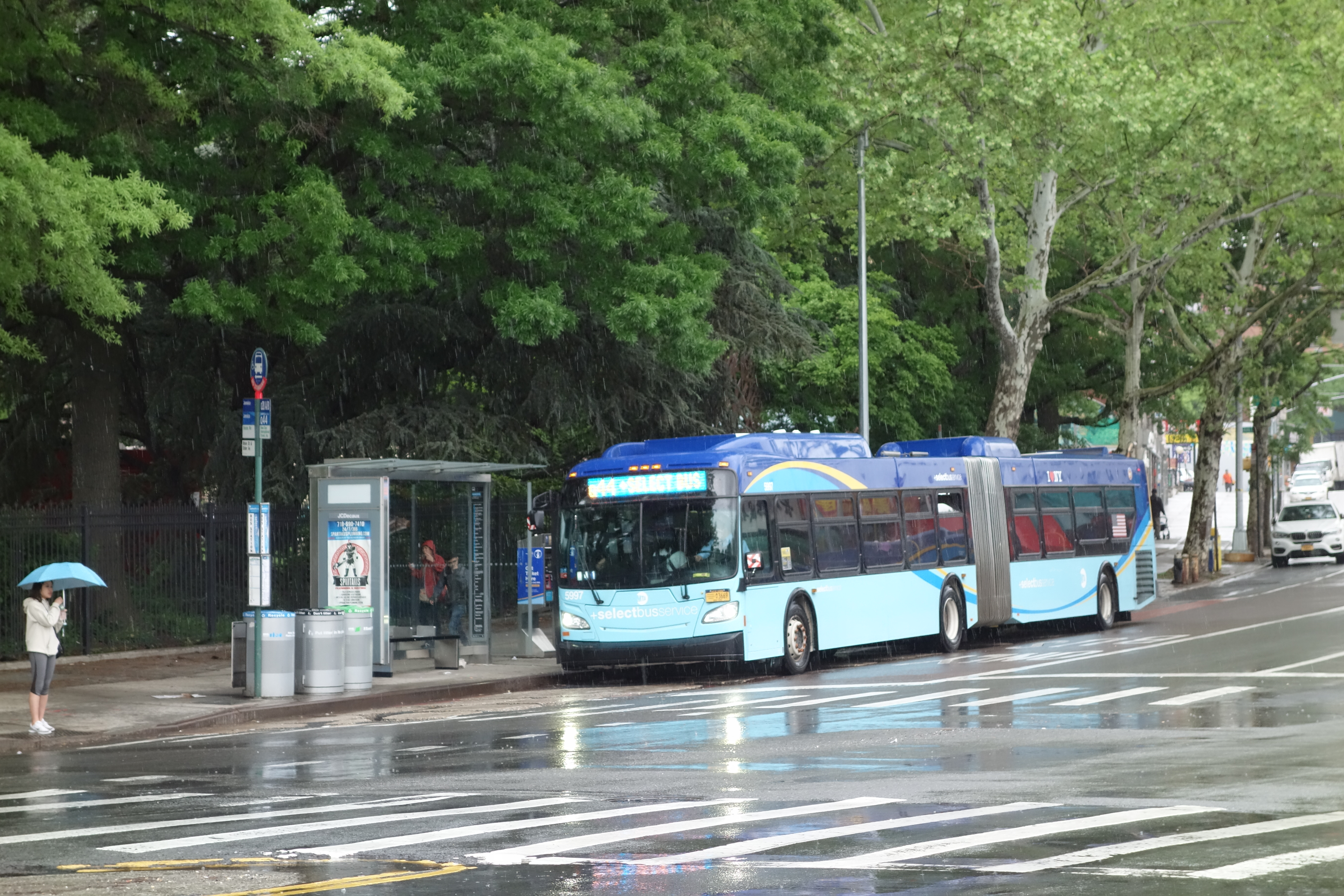 A Jamaica-bound Q44 SBS bus stopped in front of the Queens Botanical Garden, at Main Street and Elder Avenue in Flushing, Queens.